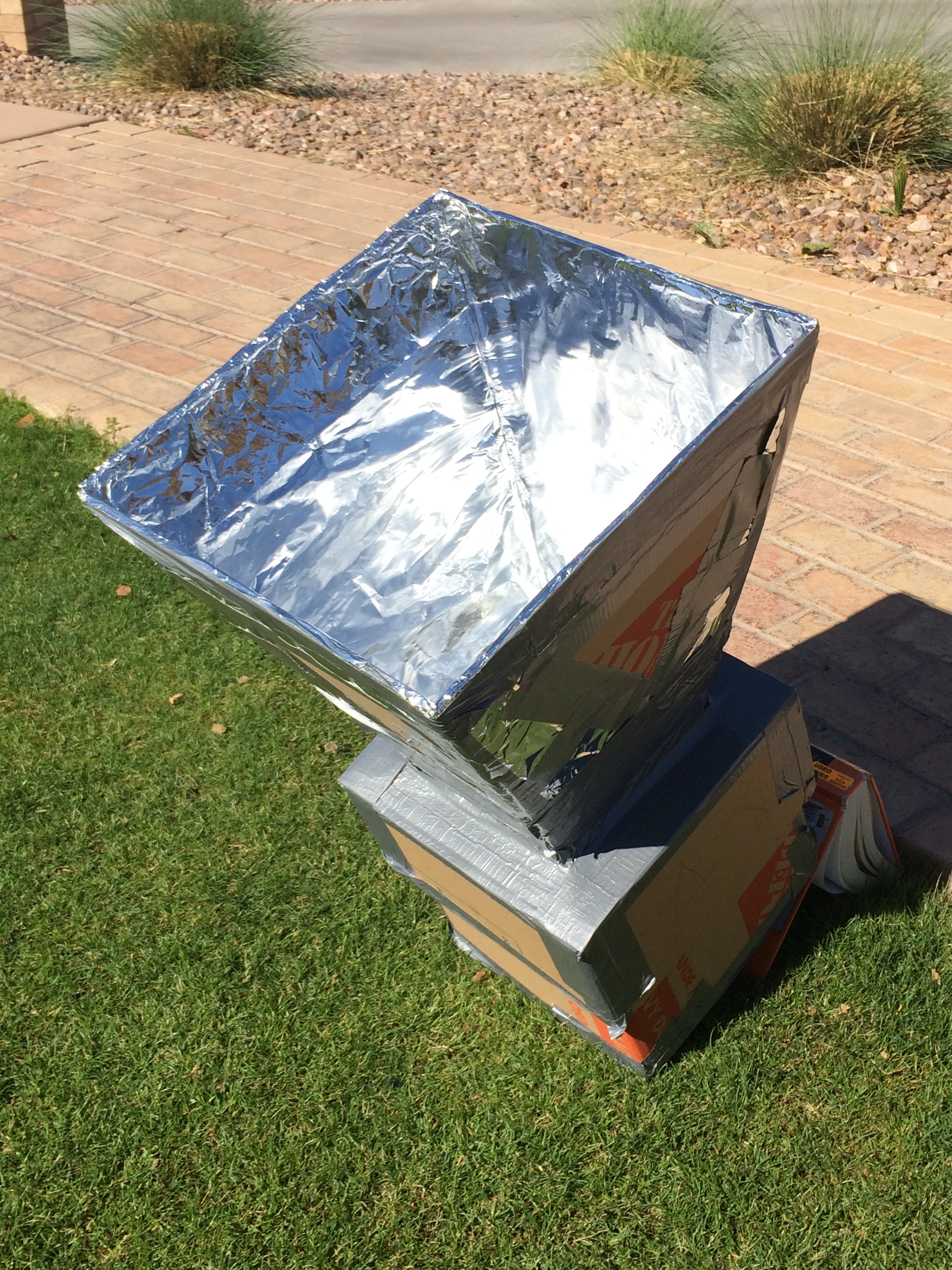 This image was taken of a solar oven made of cardboard and reflective foil at Salpointe Catholic High School